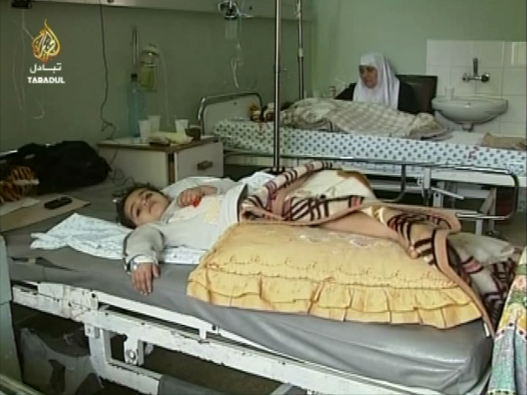 In the foreground is Samar, a 4-year old girl, who explains in the video footage that she was shot by soldiers in the hand and in the back, with a bullet exiting her stomach. Her father explains in the video footage that she was shot three times, and that her 6-year old and 8-year old sisters were killed by Israeli fire shot at close range. In the background, another women sits by the bedside of her injured daughter.